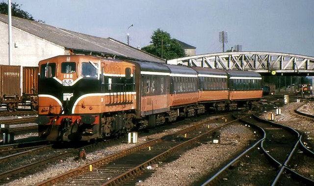 Arrival at Limerick station The 16.35 from Limerick Jct arriving at Limerick station. The train includes three Cravens coaches.